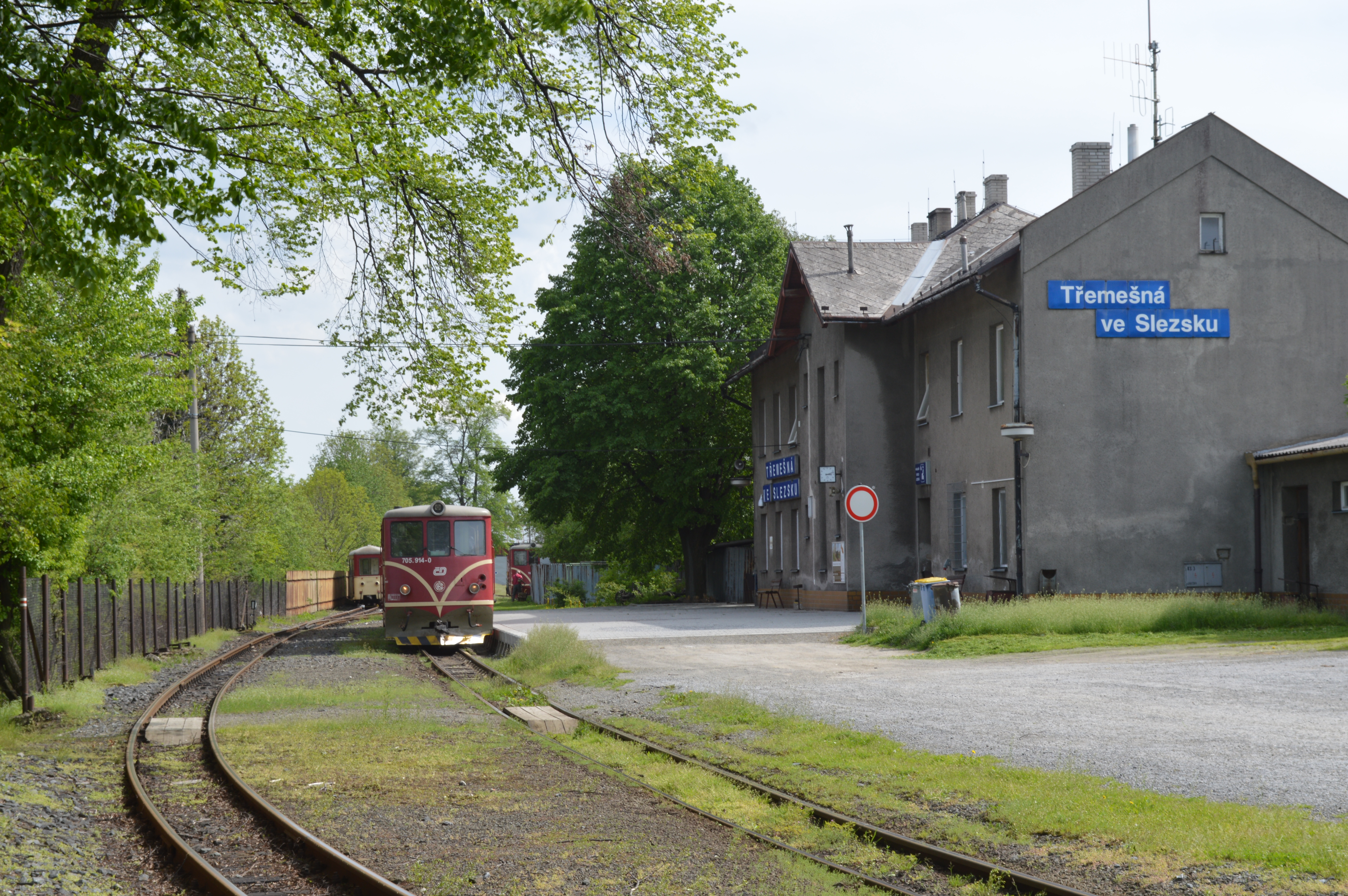 2013 Czech Republic Trip Day Six No trip to the part of the Czech Republic I covered in May 2013 would have been complete without a visit to the 760mm gauge line from Třemešná ve Slezsku to Osoblaha. Day-to-day operation on the line is in the hands of class 705 locos built in 1958. At weekends and public holidays a ex-privately owned loco from Poland, Lyd2-02 purchased in 2005 is used on tourist specials. Seen on 16 May 2013, 705.914 is booked to work train Os20609,15:27 Třemešná ve Slezsku to Osoblaha.